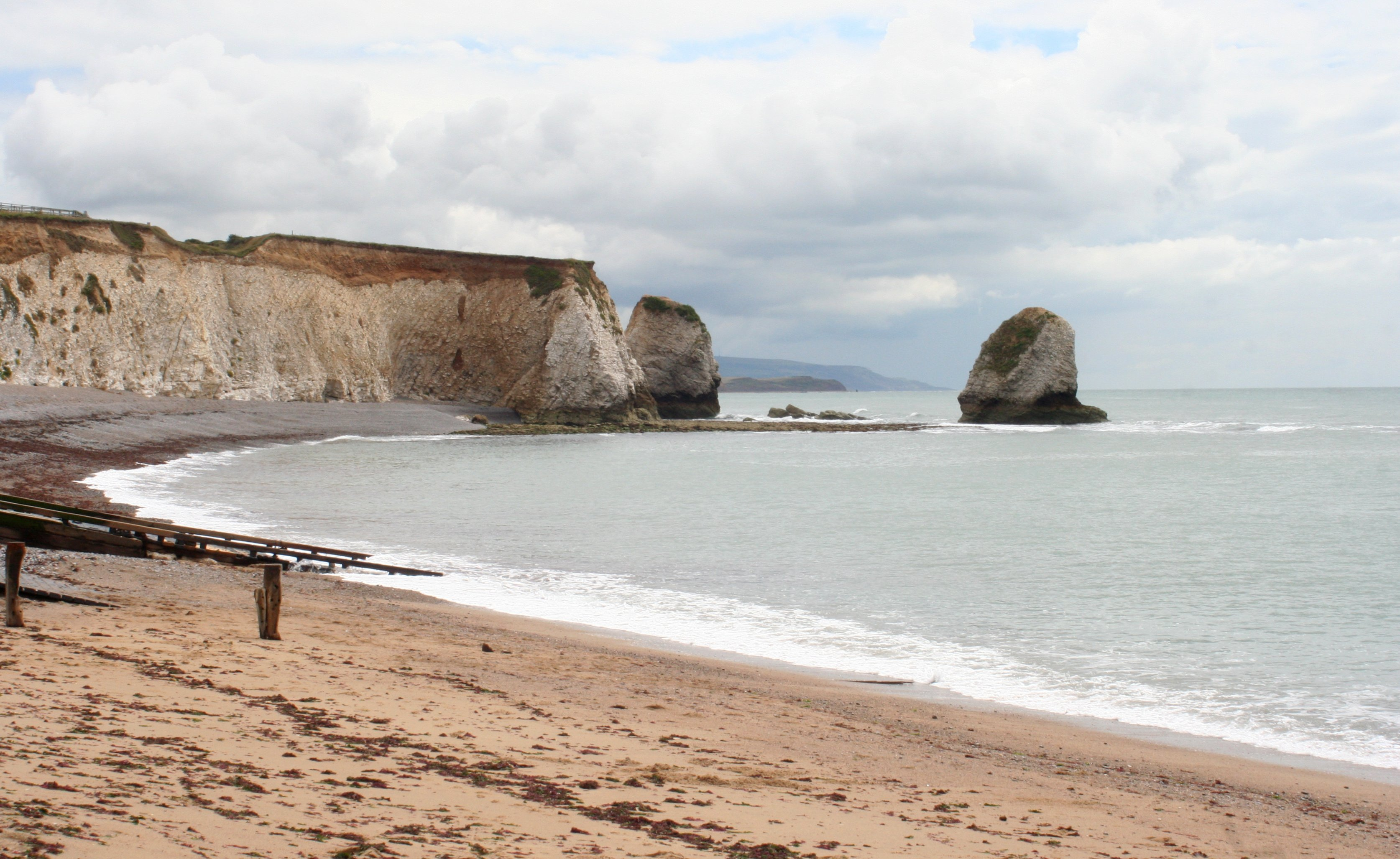 Freshwater Bay, Isle of Wight.